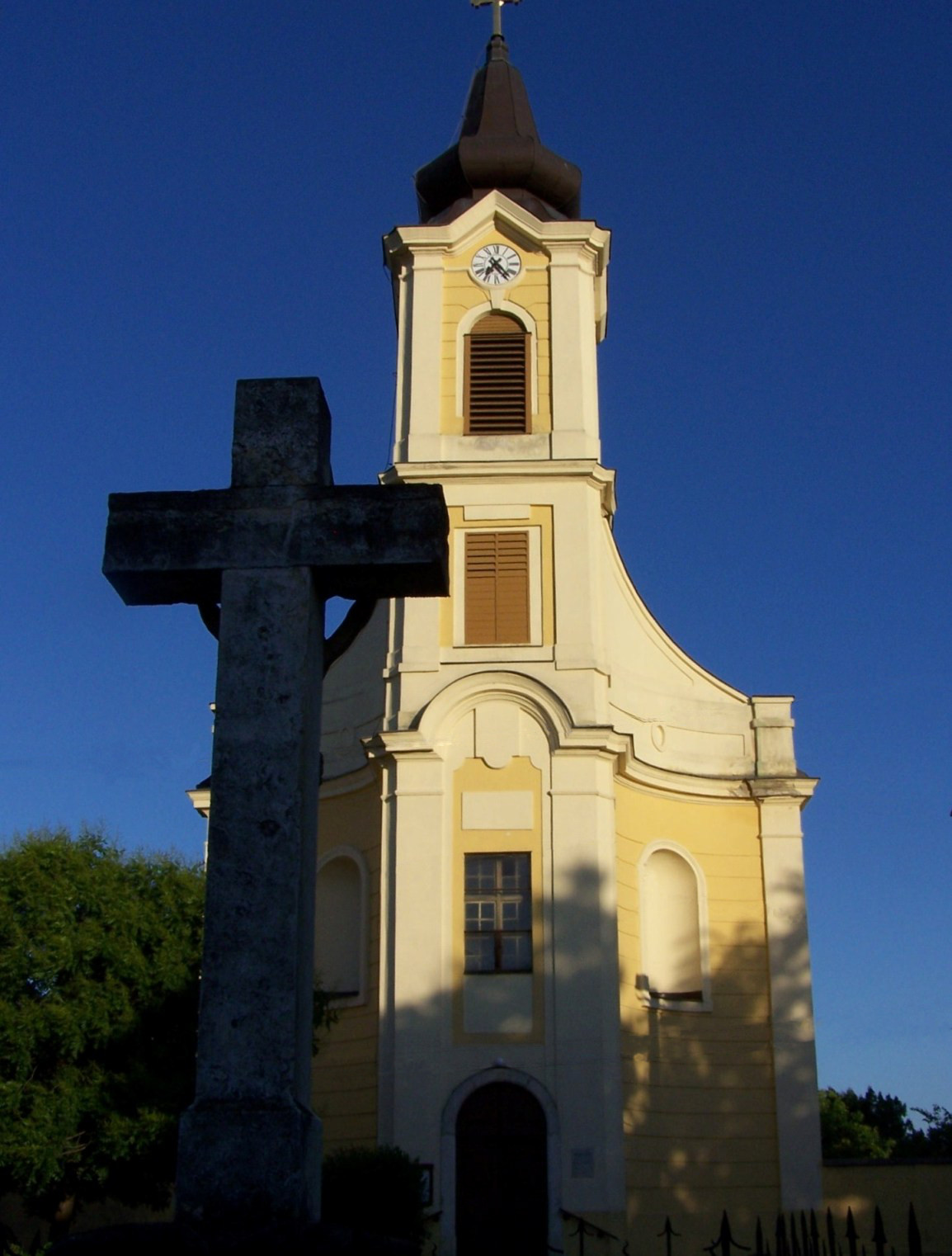 Catholic church of Rákoscsaba, Budapest (Hungary)